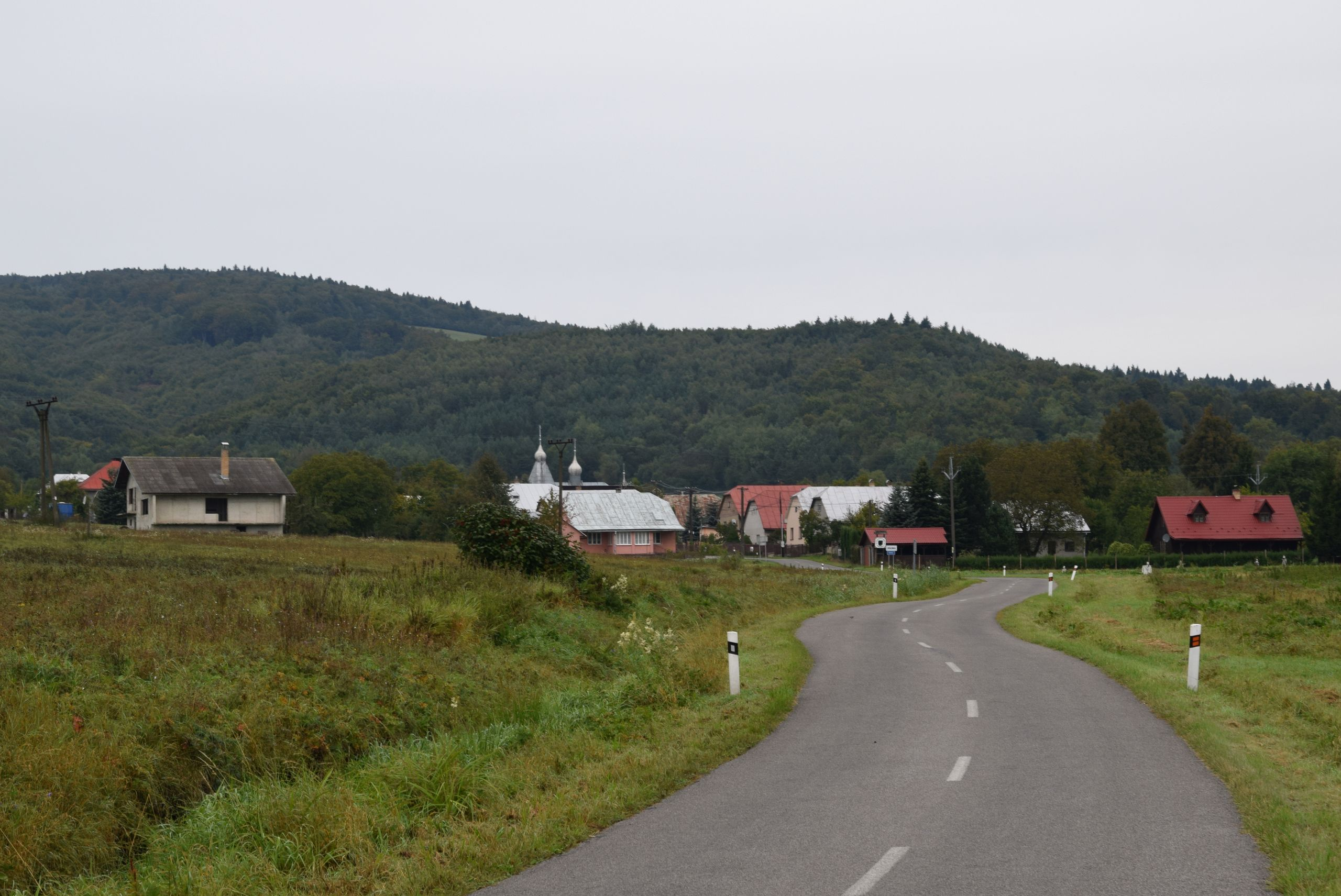 Jedlinka village